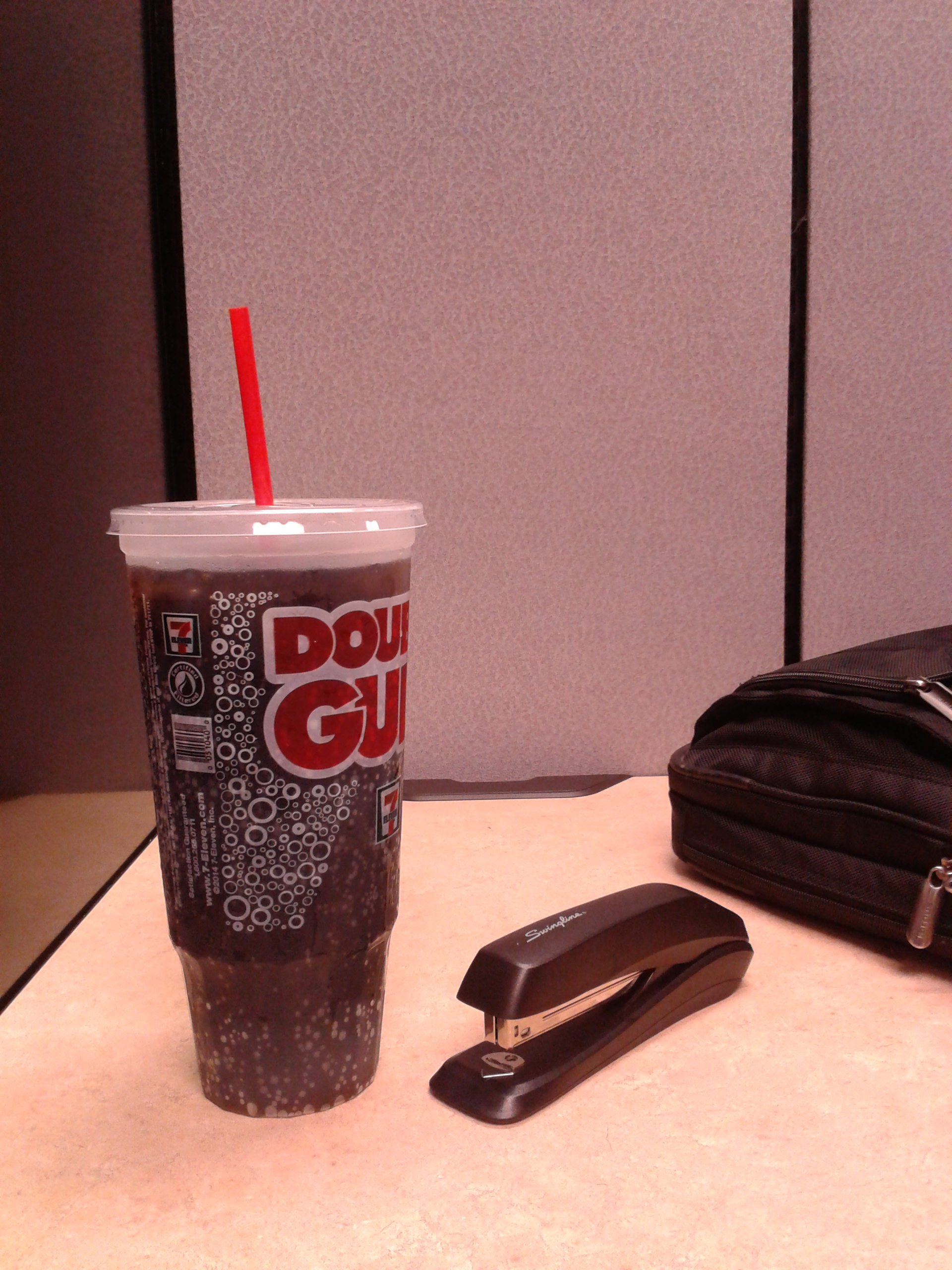 Double Gulp from 7-Eleven, with a stapler next to it for comparison. (I may have a bit of a problem...)